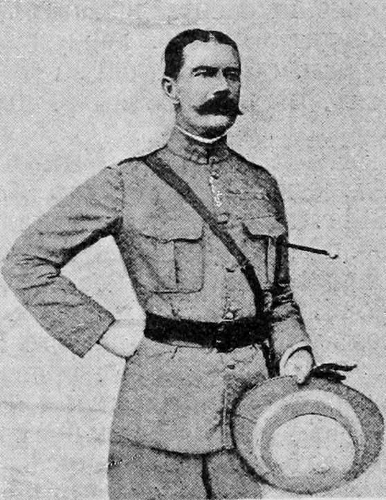 Field Marshal Horatio Herbert Kitchener, 1st Earl Kitchener, KG, KP, GCB, OM, GCSI, GCMG, GCIE, PC (/ˈkɪtʃɪnər/; 24 June 1850 – 5 June 1916) was a senior British Army officer and colonial administrator who won notoriety for his imperial campaigns, most especially his scorched earth policy against the Boers and his establishment of concentration camps during the Second Boer War, and later played a central role in the early part of the First World War.